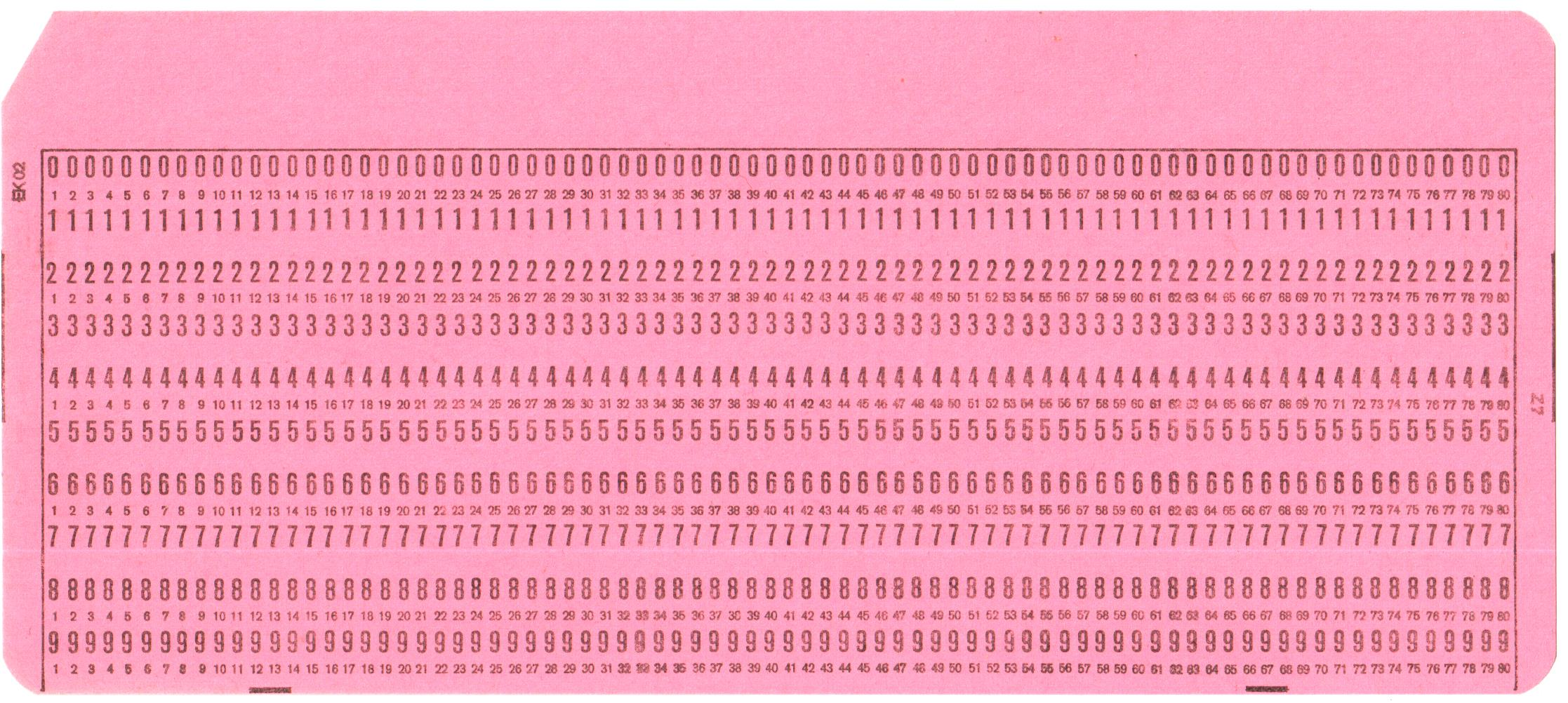 European variant of IBM's punch card, can be different color.